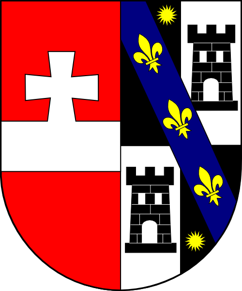 Coat of arms (shield only) of Christoph cardinal Migazzi von Waal und Sonnenthurn, archbishop in personam of Vác, Hungary (1756 - 1757), archbishop of Vienna (1757 - 1803).